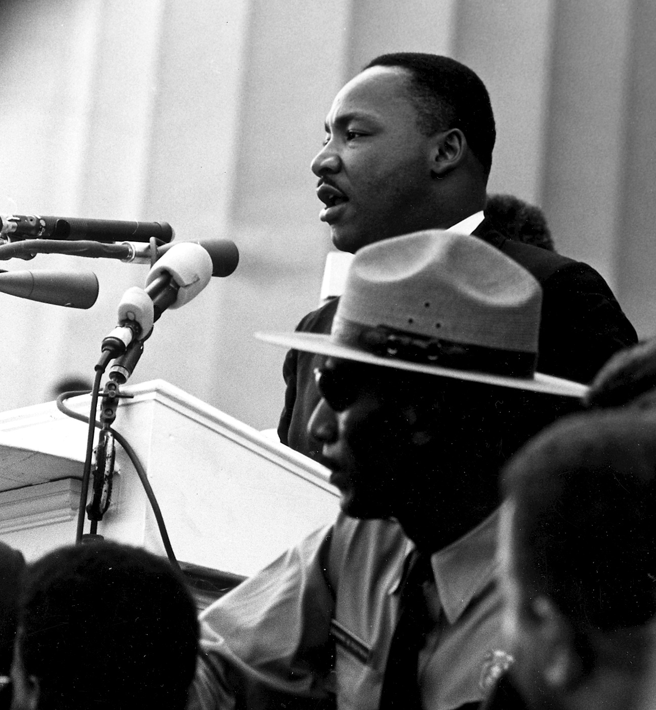 Dr. Martin Luther King giving his "I Have a Dream" speech during the March on Washington in Washington, D.C., on 28 August 1963.